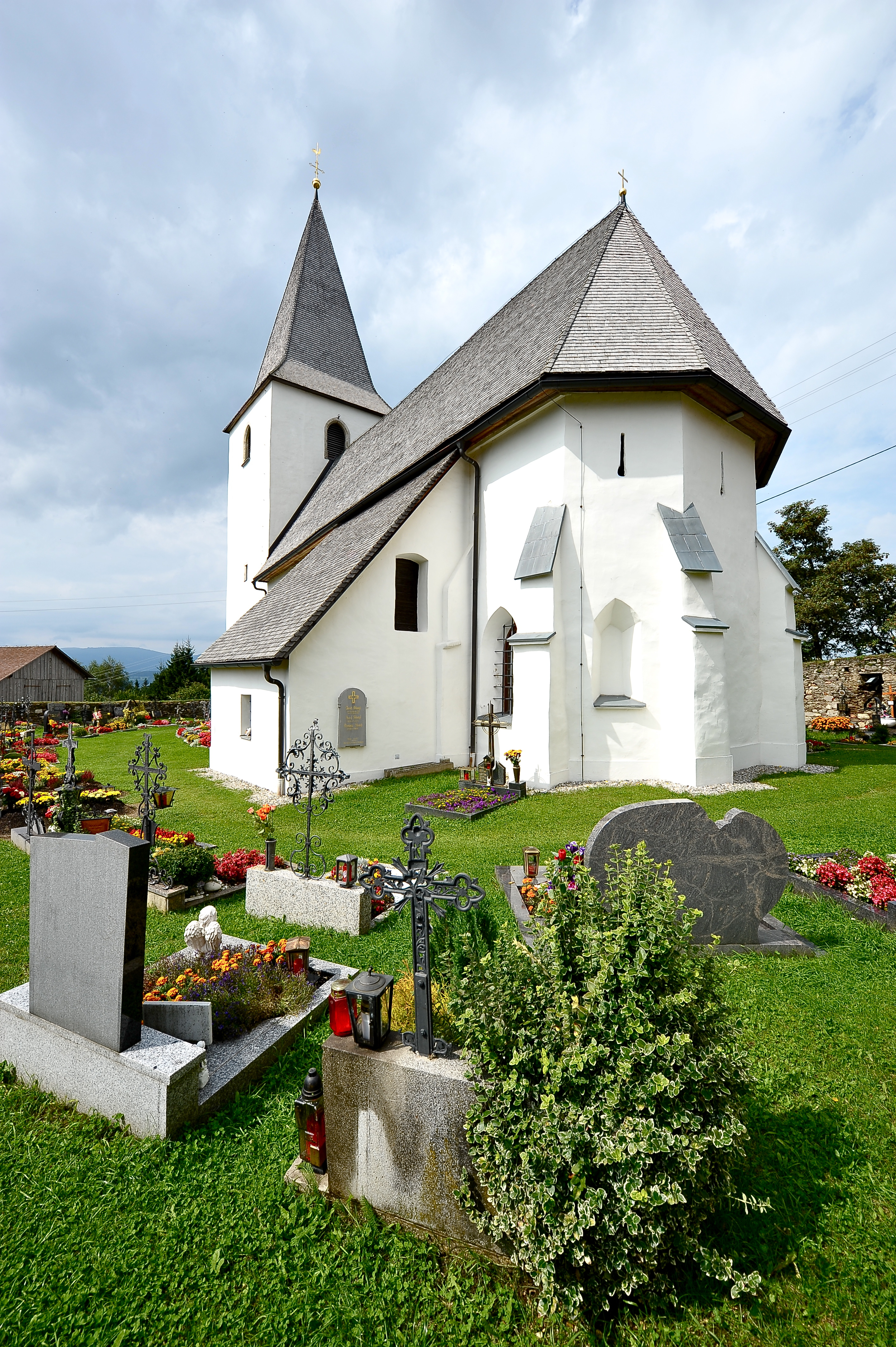 South east view at the parish church Saint Magdalene at Theissenegg, municipality Wolfsberg, district Wolfsberg, Carinthia / Austria / EU